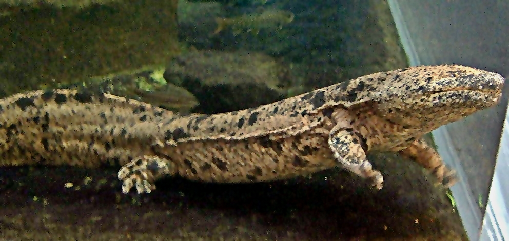 Japanese giant salamander